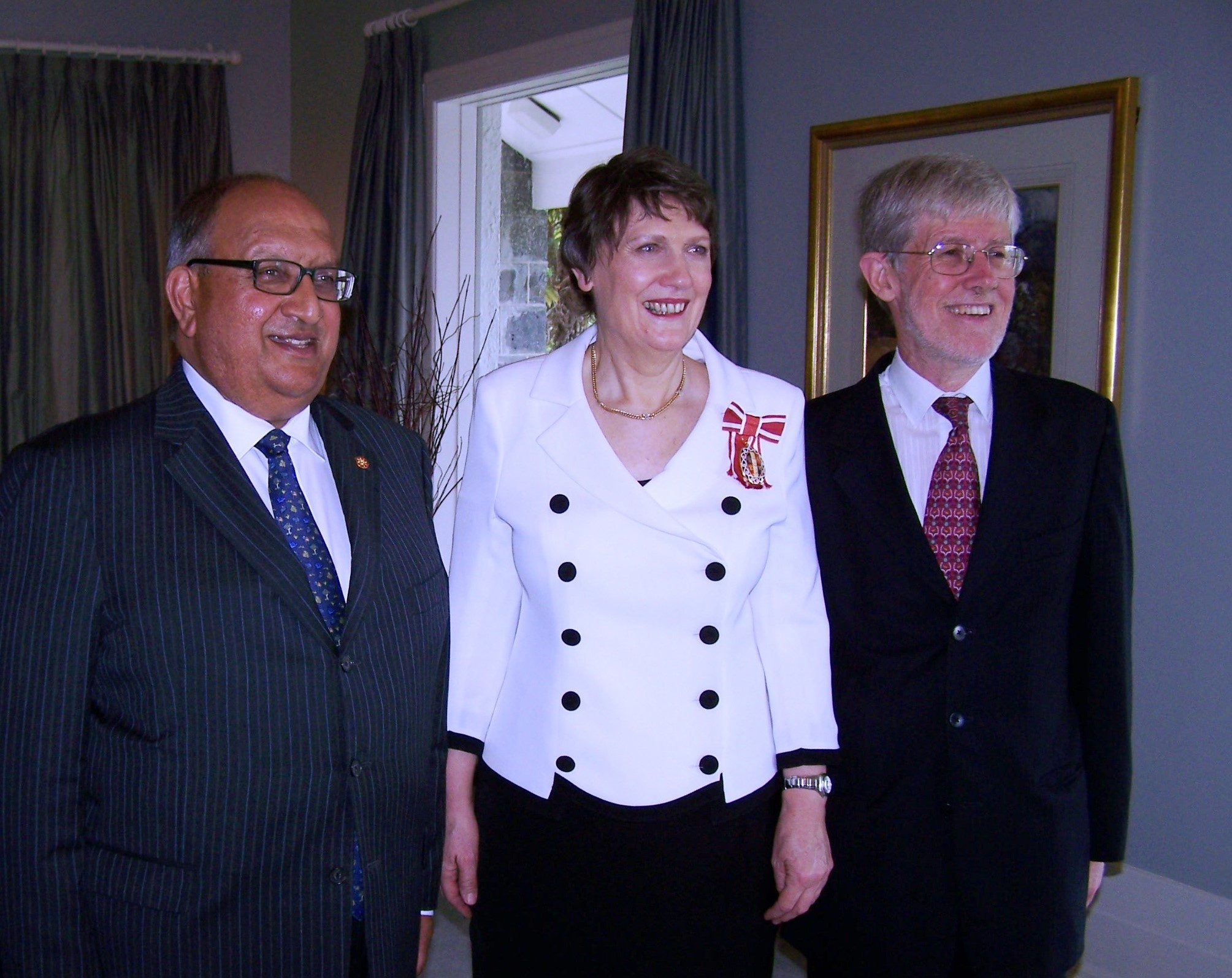 The Governor-General, Hon Sir Anand Satyanand pictured with Rt Hon Helen Clark ONZ and Professor Peter Davis